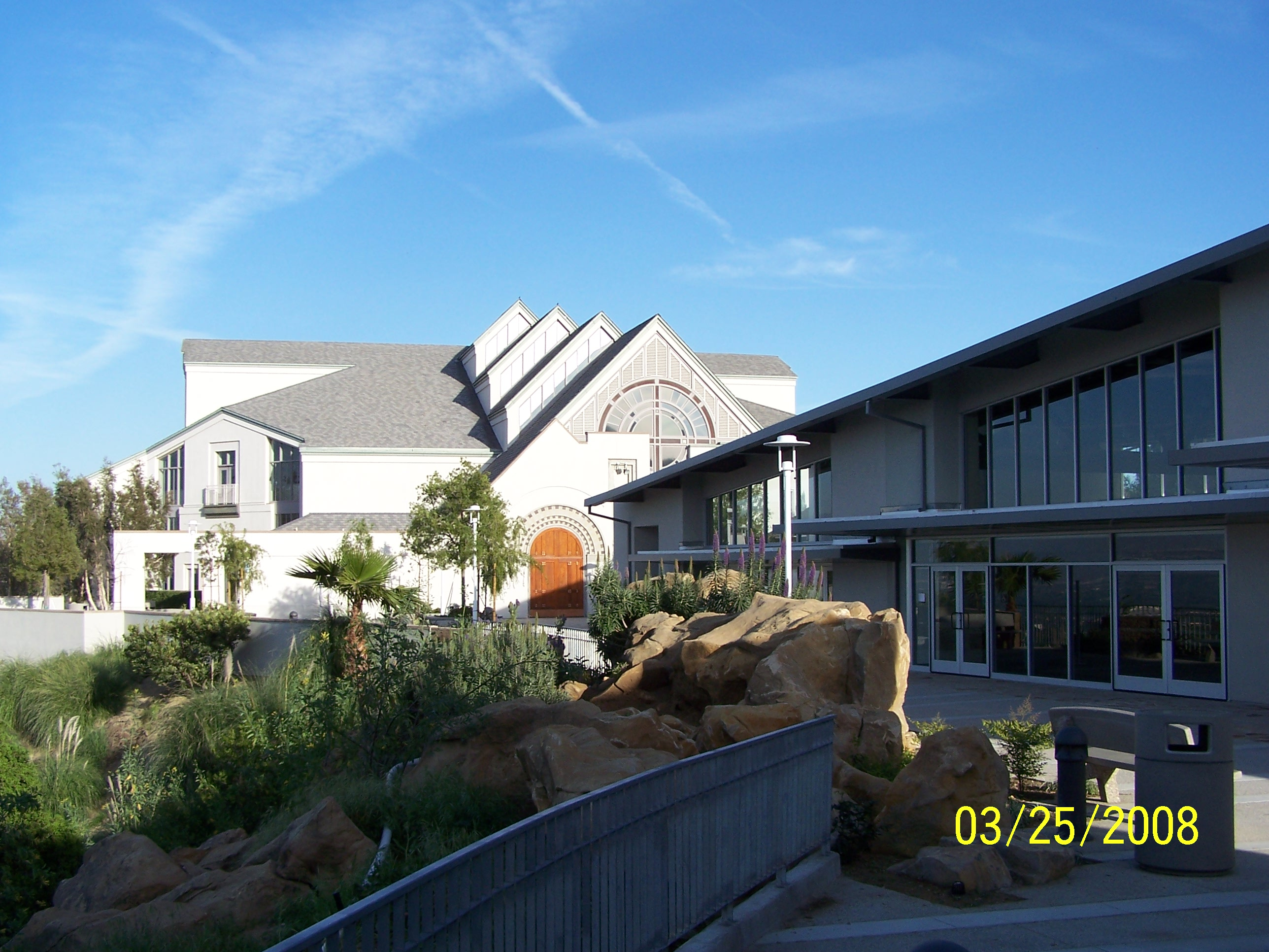 Bel Air Presbyterian Church main entrance and Discipleship Center.